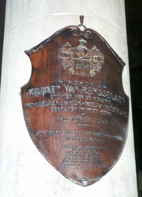 Memorial plaque to Kiliaen van Rensselaer in Oude Kerk, Amsterdam, the Netherlands